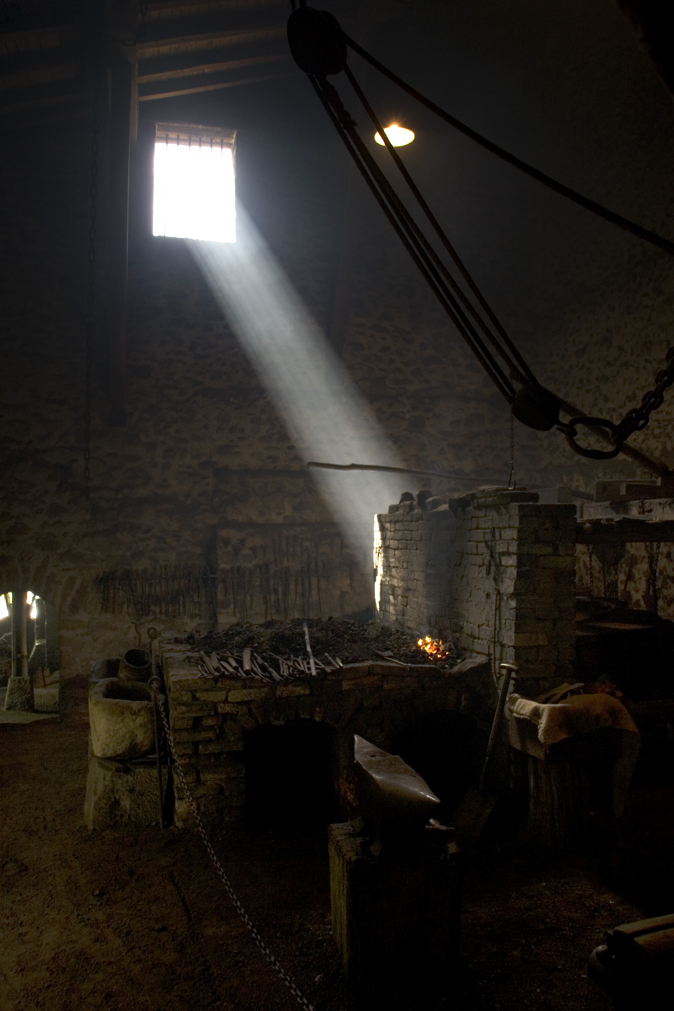 El Pobal ironworks (Muskiz, Biscay, Basque Country, Spain)